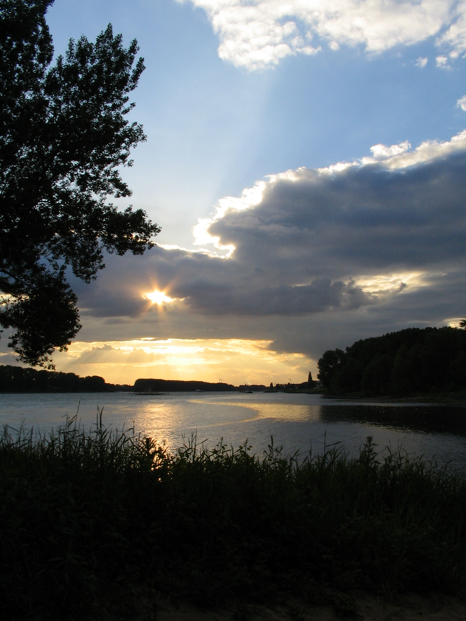 Mouth of Sieg (on the right) and Rhine in Bonn